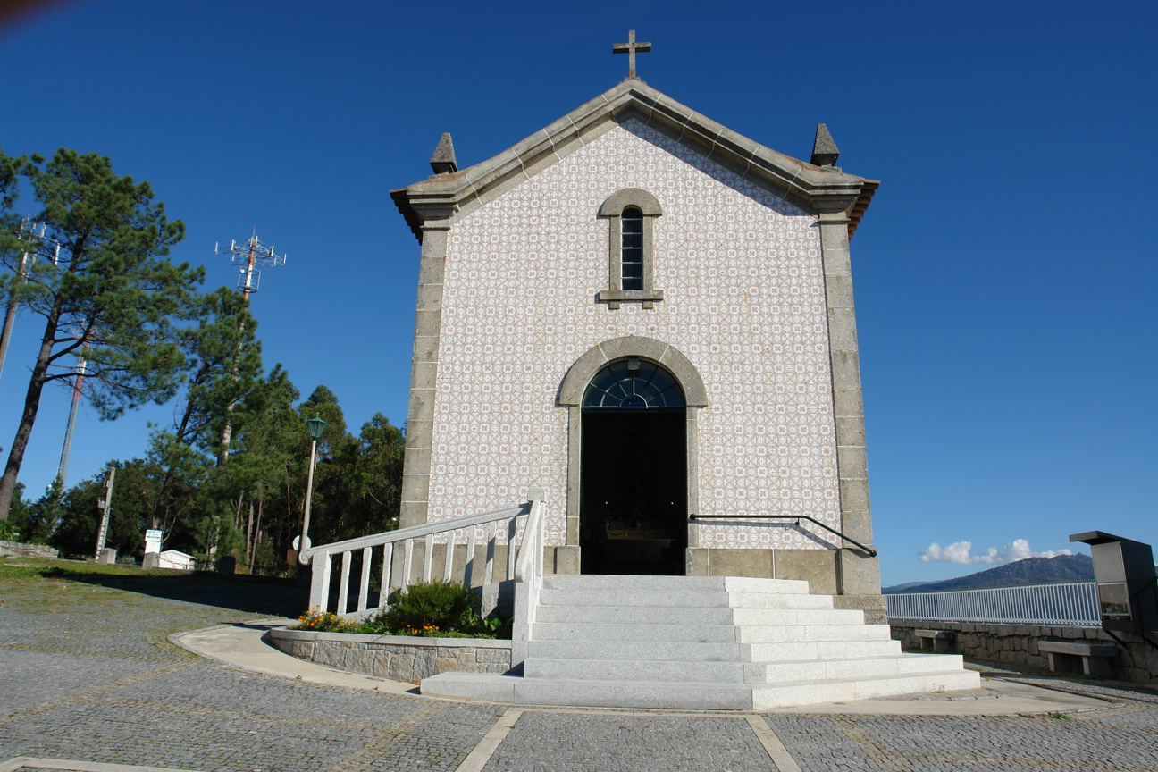 Chapell